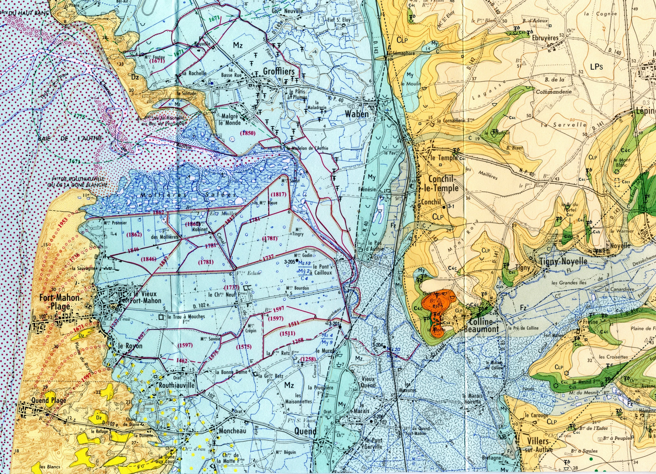 BRGM map (1984) of Marquenterre (Somme river) showing dams (royons) creating polders (renclotures)